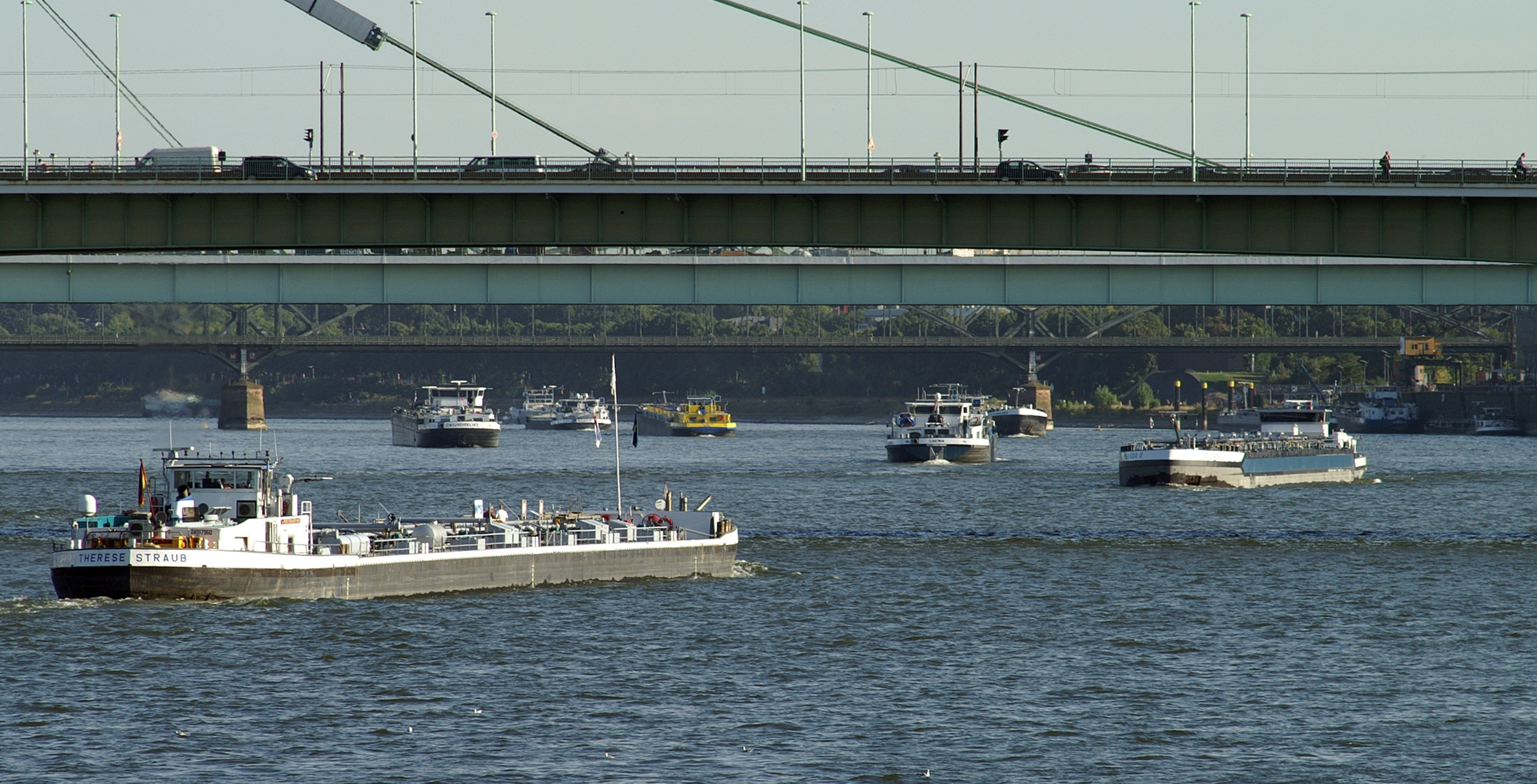 a lot of ship traffic on the rhine in Cologne.